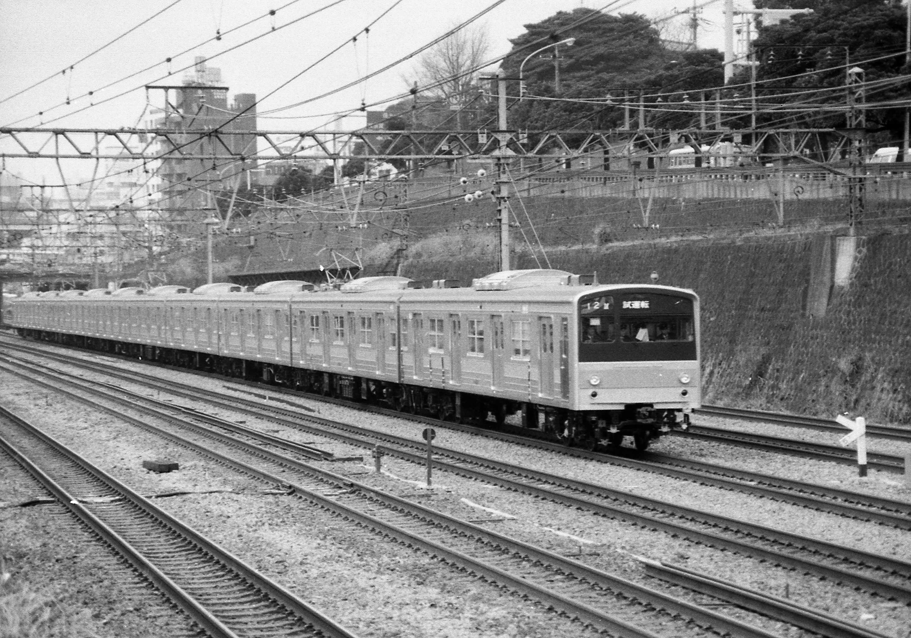 A JNR Yamanote Line 205 on a test run on the Tokaido Line, Higashi-Kanagawa Station